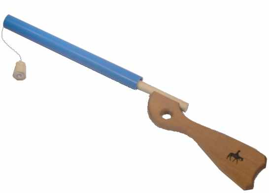 Toy Popgun manufactured by Kraft-Tyme, Inc.